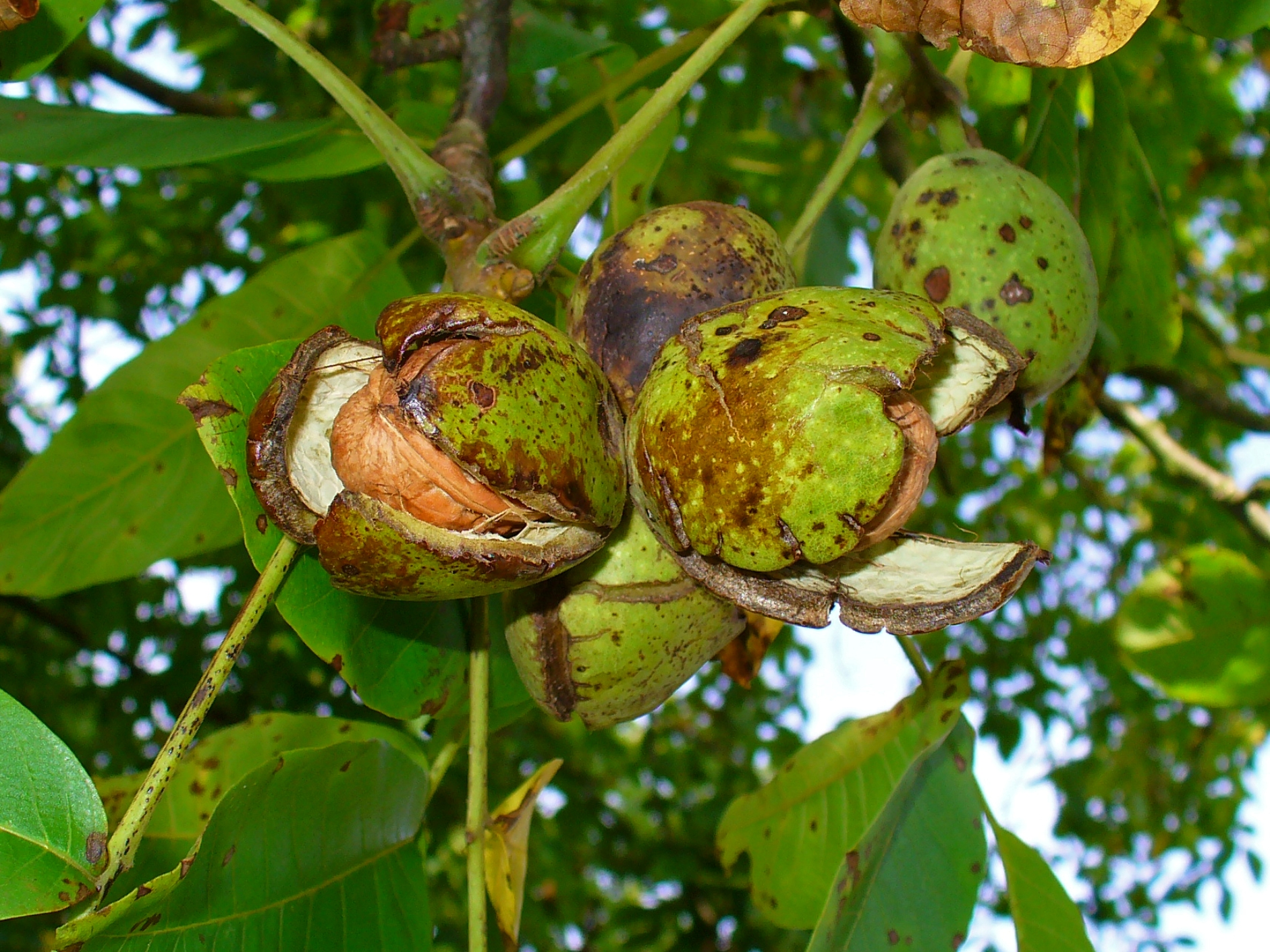 Juglans regia, Juglandaceae, Common Walnut, Persian Walnut, English Walnut, fruits with nuts; Karlsruhe, Germany.